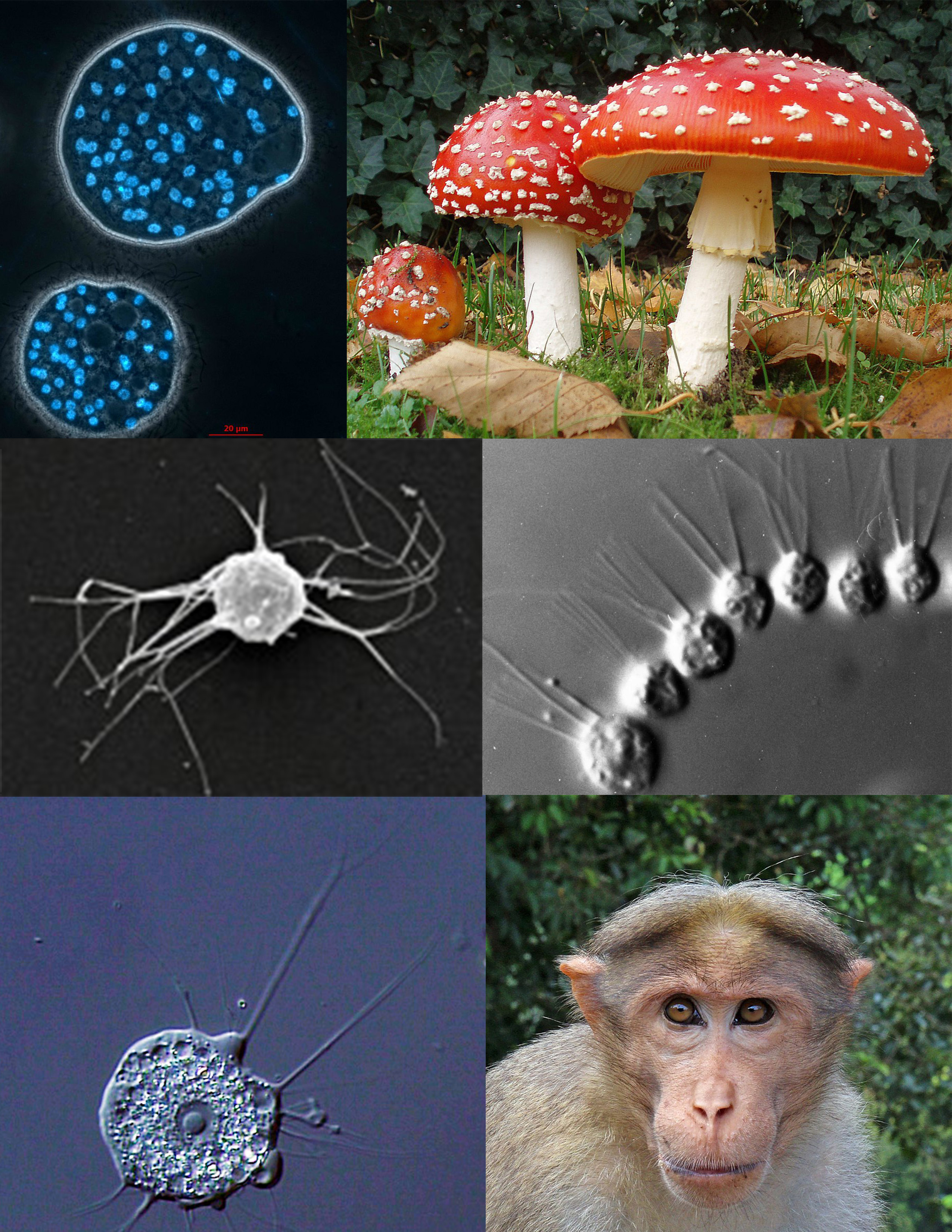 Clockwise, from top left: Abeoforma whisleri (Ichthyosporea); Amanita muscaria (Fungi); Desmarella moniliformis (Choanoflagellatea); Bonnet Macaque (Metazoa); Nuclearia thermophila (Nucleariida); Ministeria vibrans (Filozoa)